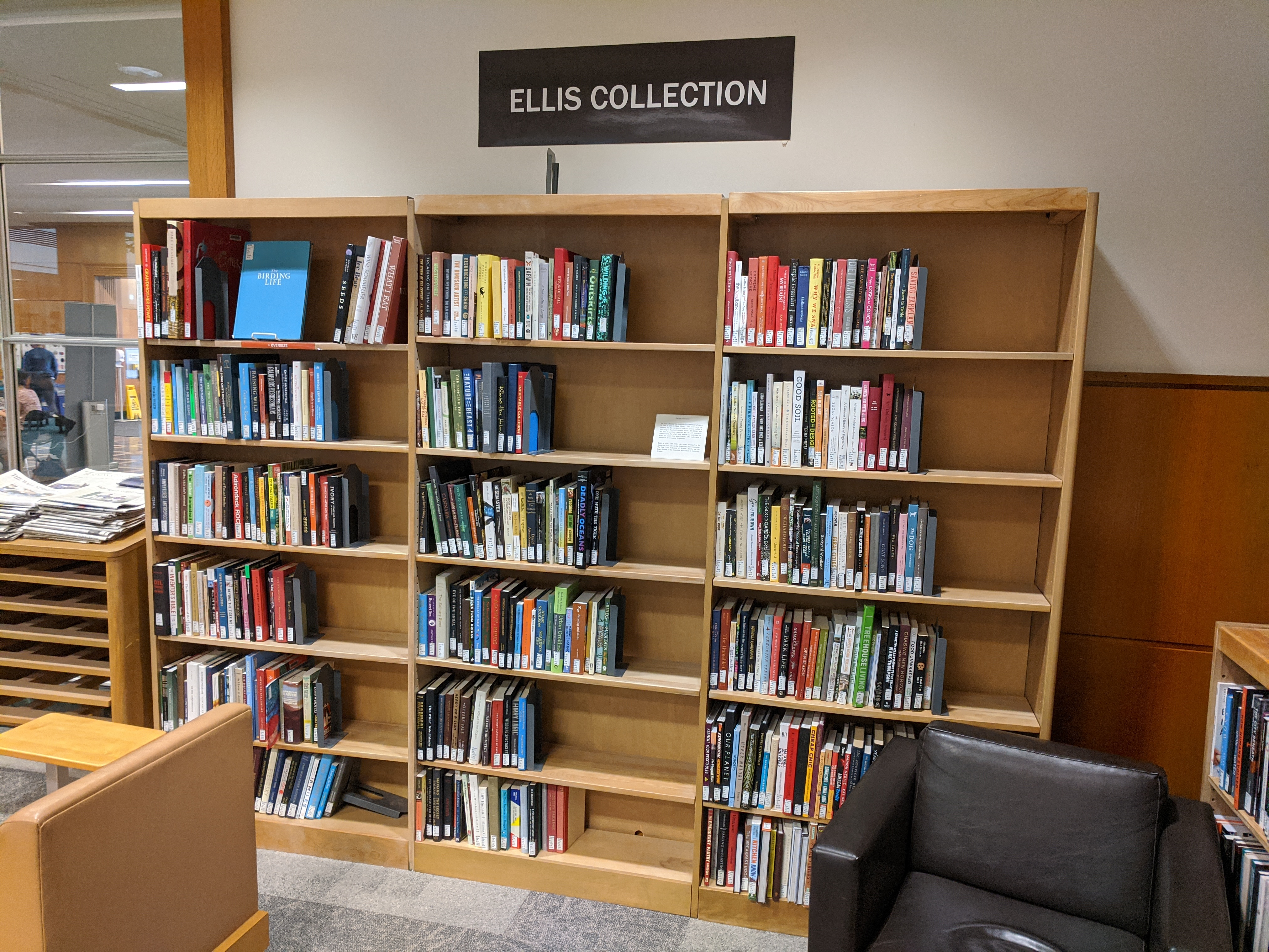 Bookshelves housing books about agriculture and biology, purchased from a bequest by Edith A. Ellis to Mann Library, Ithaca, New York